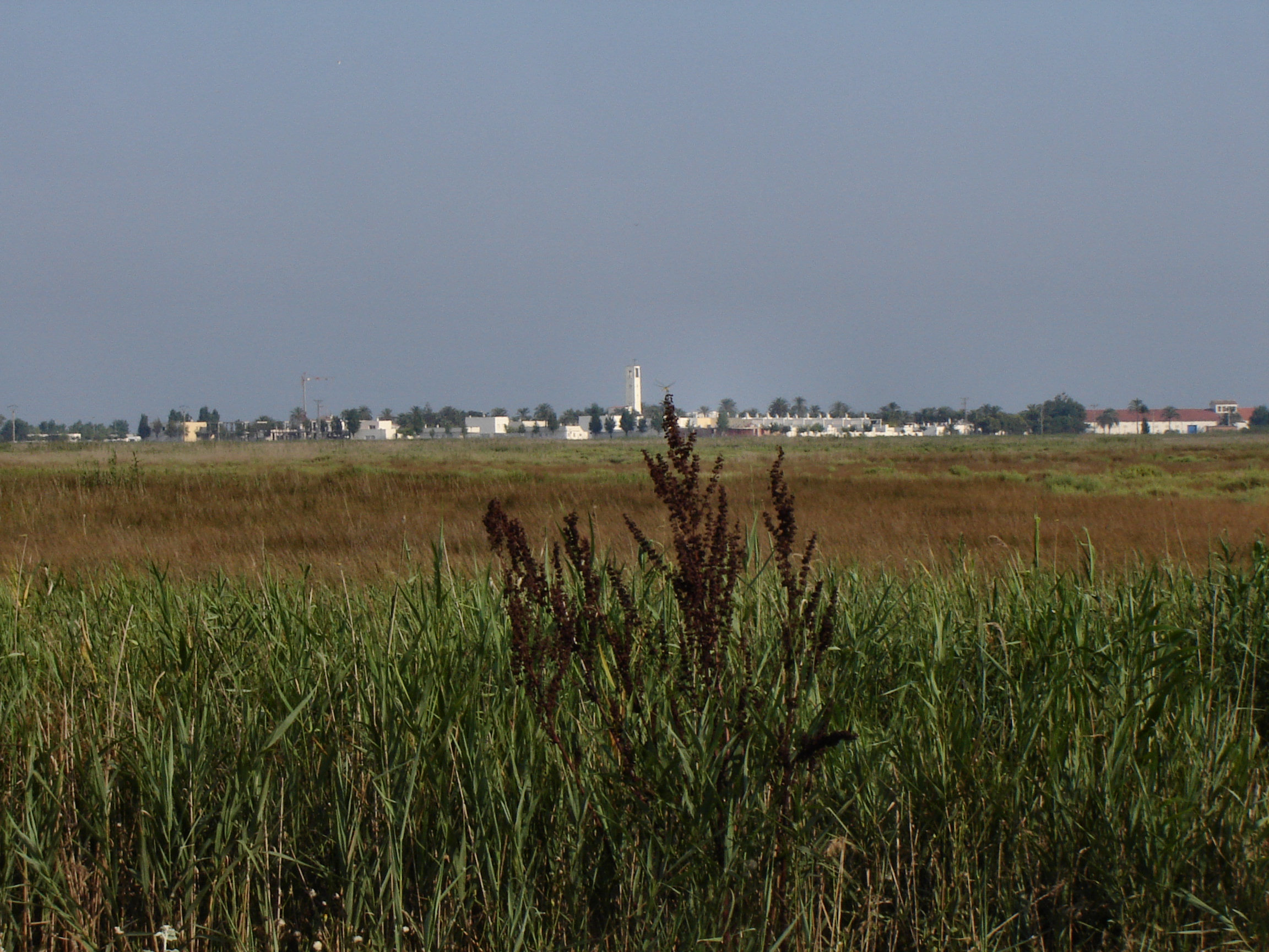 View on the village of El Poble Nou Del Delta in the plain of Ebro delta. El Poble Del Delta, municipality Amposta, comarca Montsià, province of Tarragona, Spain.